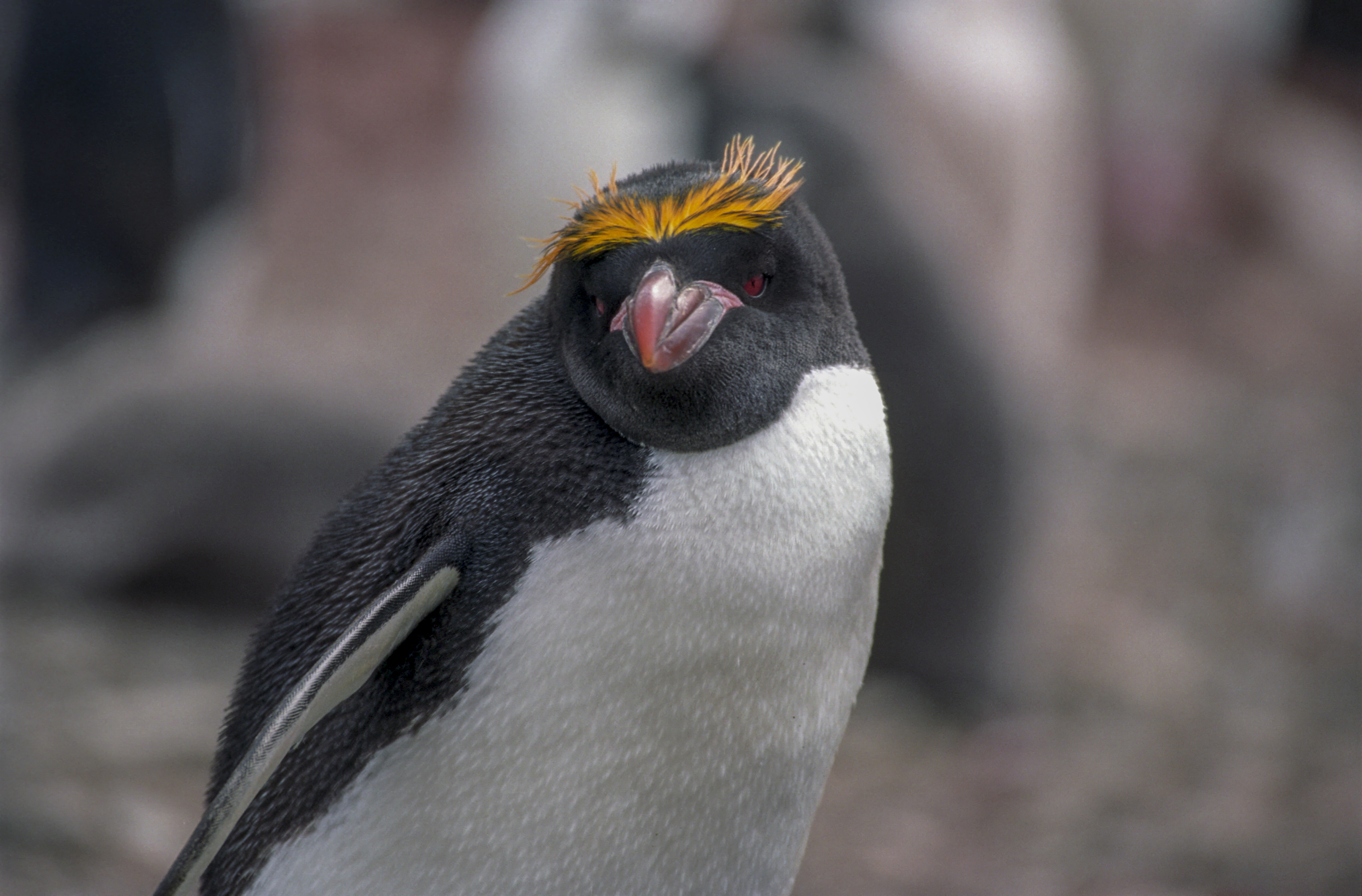 Antarctica, Macaroni Penguin